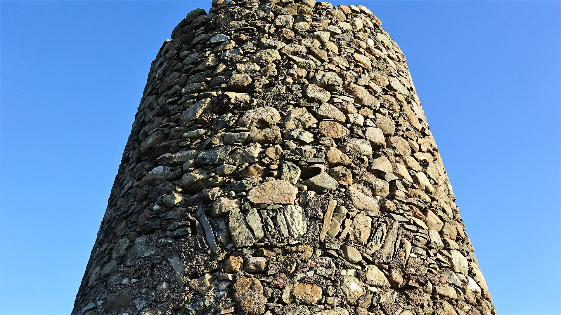 Ballantrae's Vaulted Tower Windmill, Mill Hill, South Ayrshire - relieving arch in west facing wall.